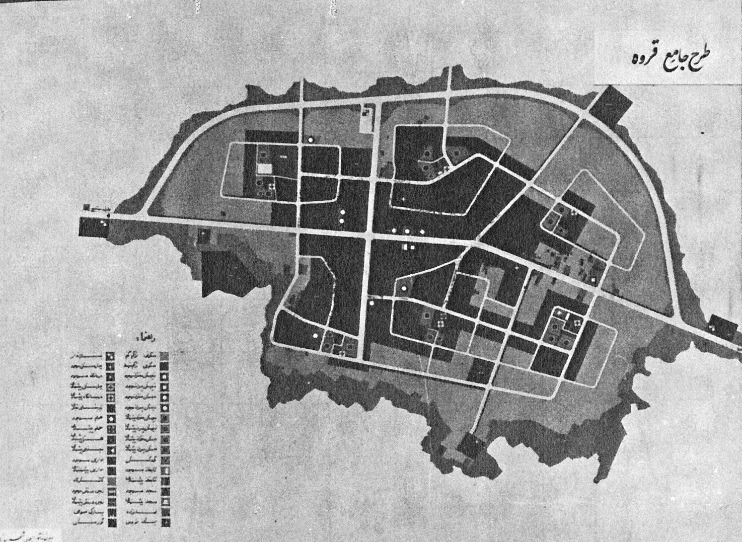 urban planning of Qorveh, Kurdistan, Iran